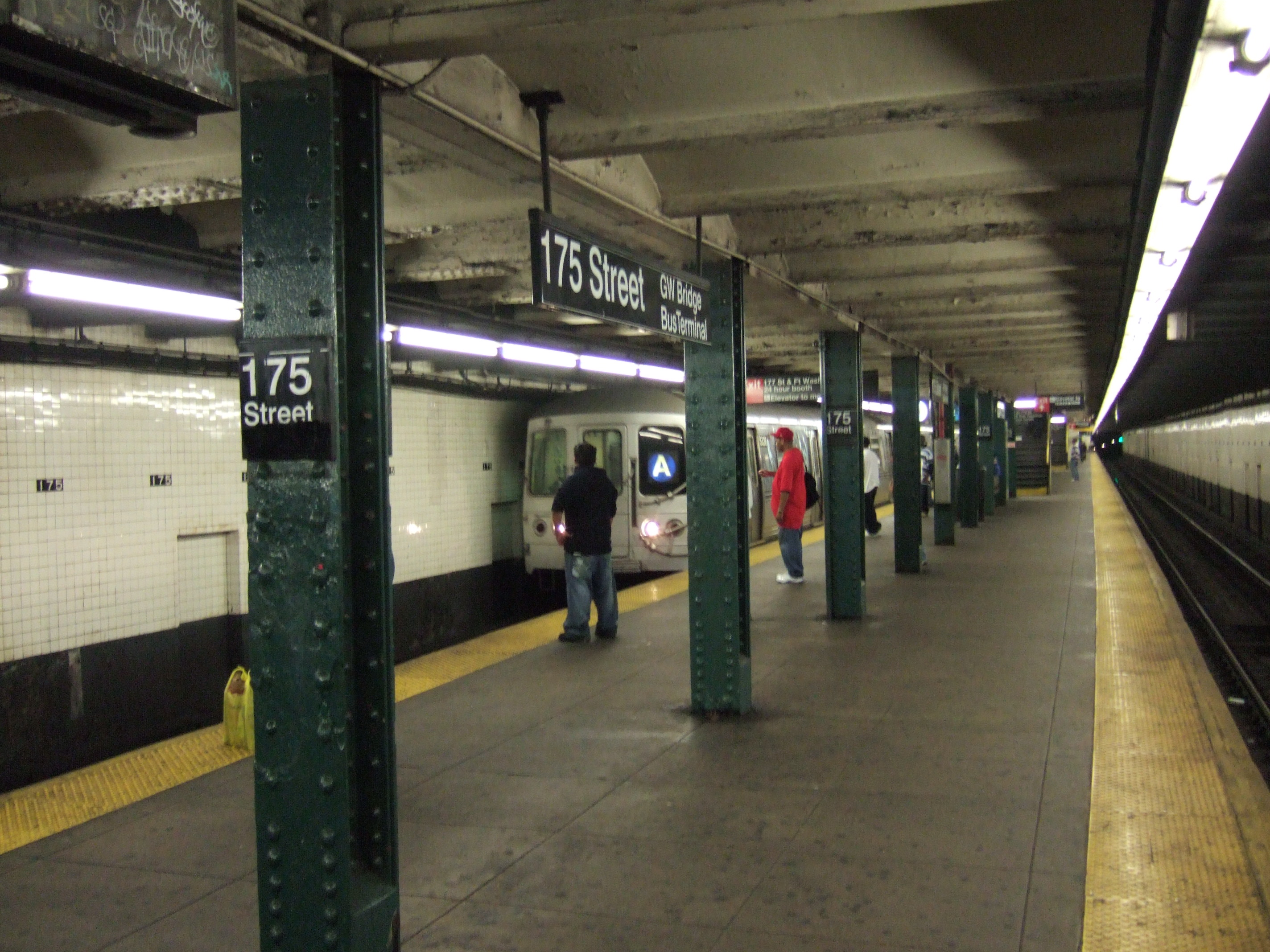 A Brooklyn-bound A train pulling into the 175th Street station. Unlike other IND stations, there is no color tile and one single center platform. But it was one of the first fully A.D.A. accessible stations with an elevator leading to the platform.